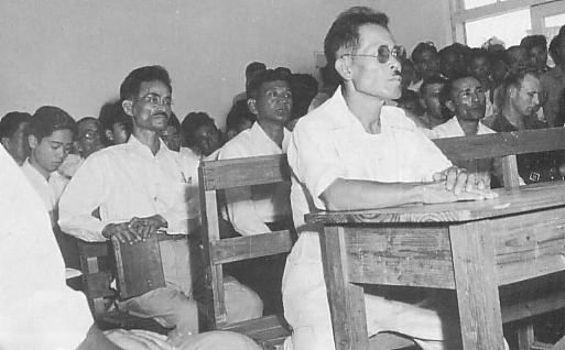 Trial for Okinawa Peoples Party Incident